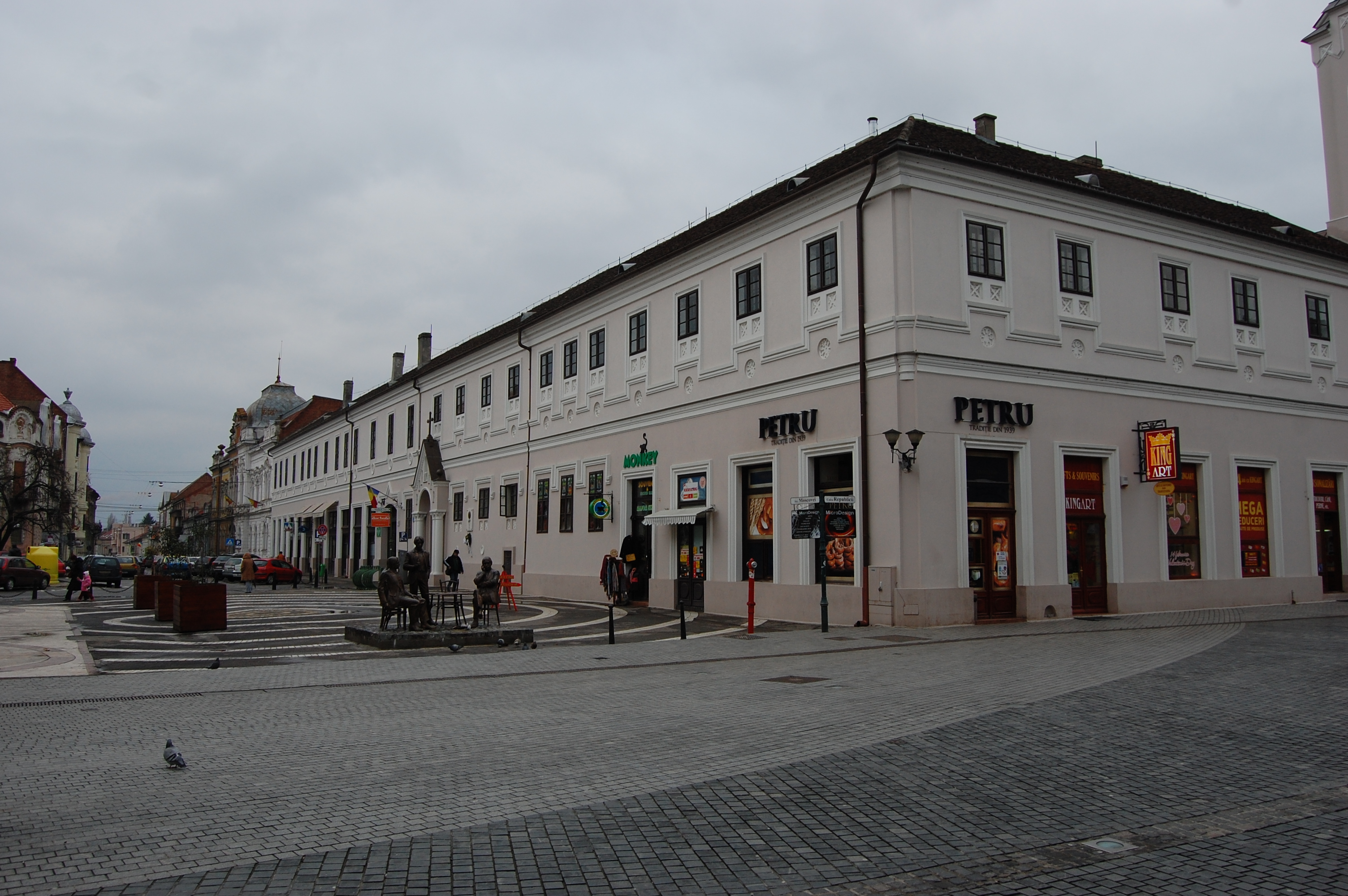 Ady Endre College in Oradea